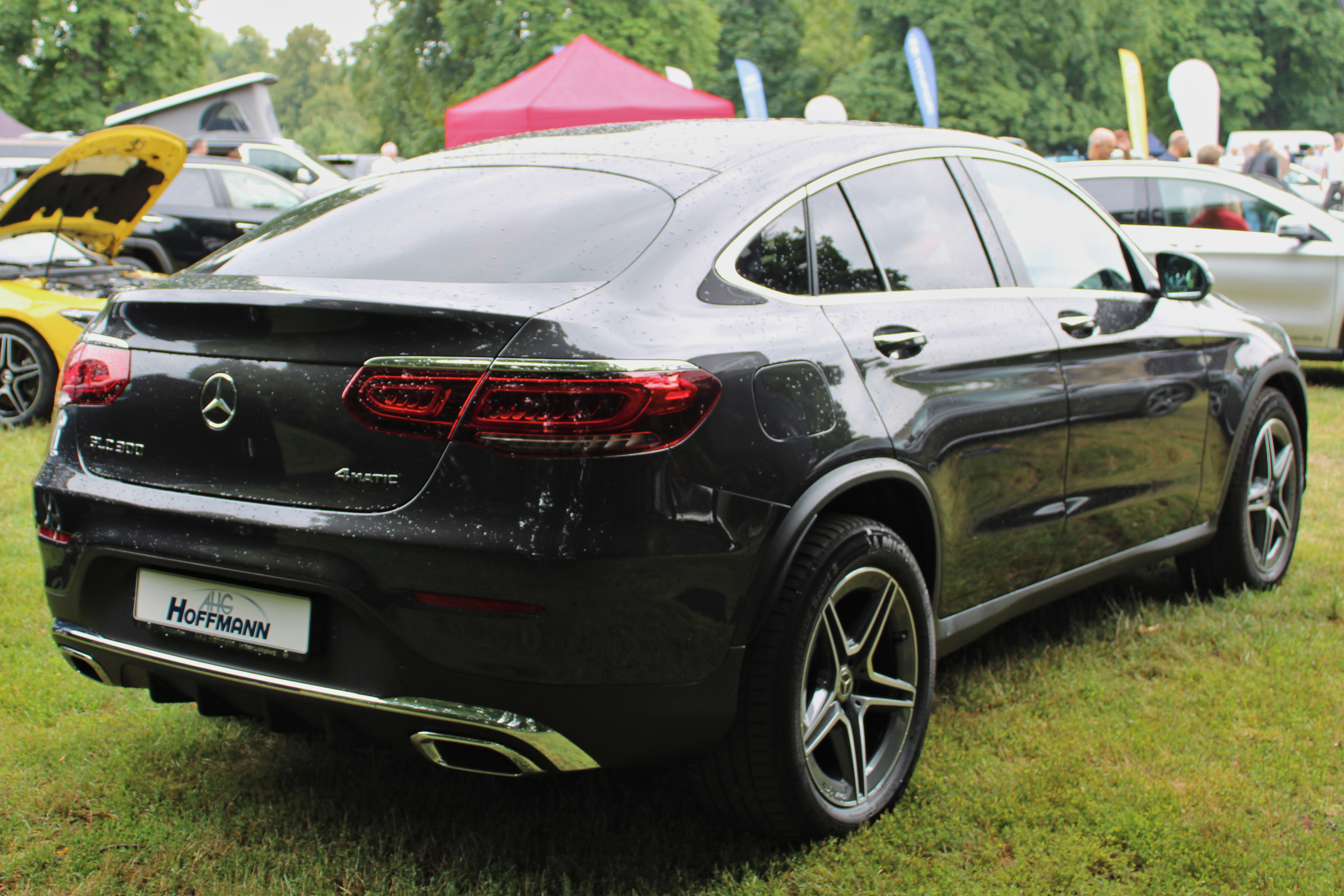 Mercedes-Benz C253 at Schloss Monrepos 2019